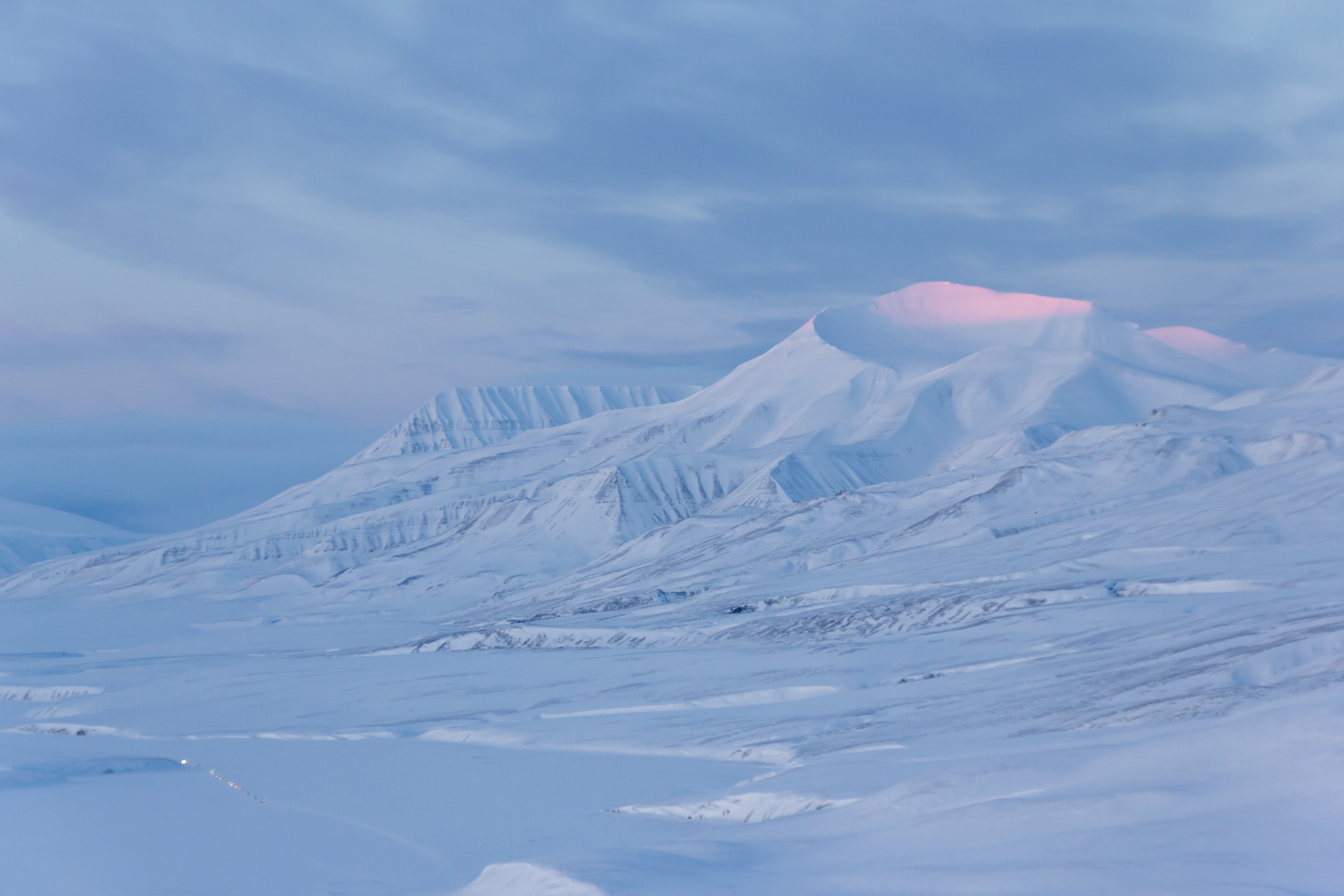 The first rays of sunshine hit the top of Helvetiafjellet (Mt. Helvetia), Spitsbergen, Svalbard, after a four month long polar night. Taken on Brentskarhaugen far east in Adventdalen (Advent Valley).